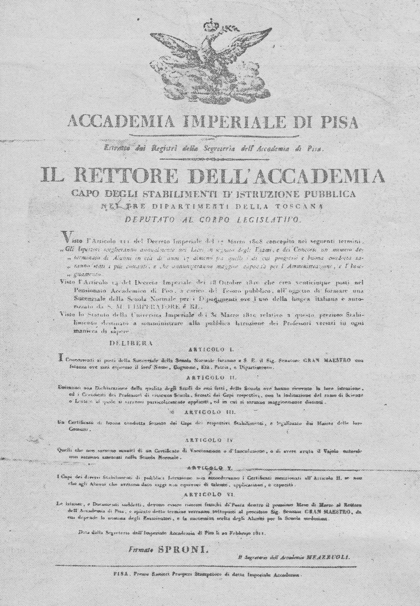 One of the first regulations of Scuola Normale, Pisa, Tuscany, Italy.